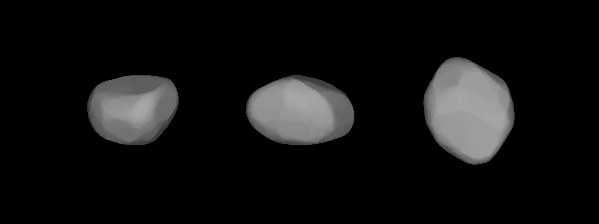 A three-dimensional model of 208 Lacrimosa that was computed using light curve inversion techniques.